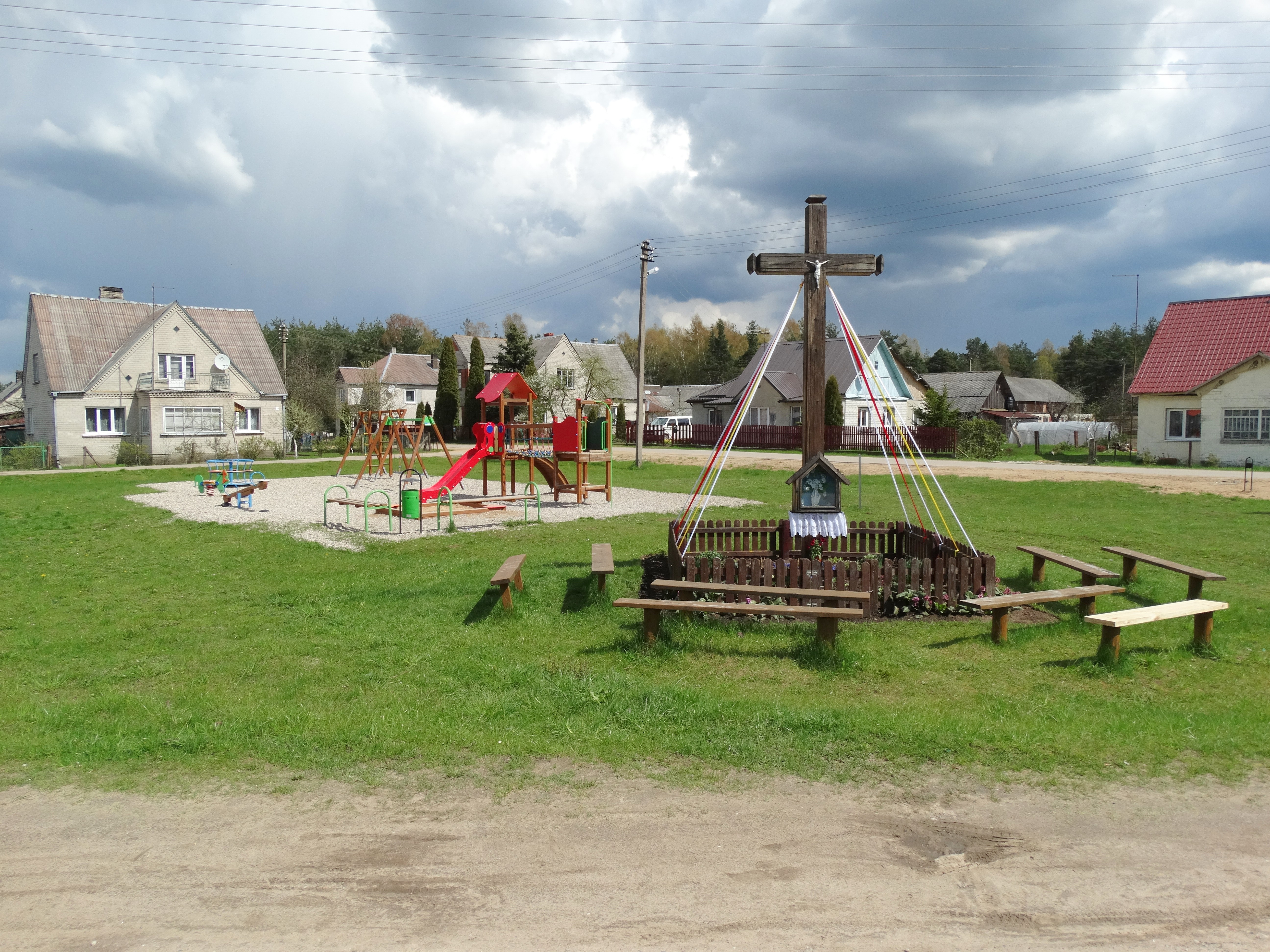 Cross, Marijampolis, Vilnius District, Lithuania